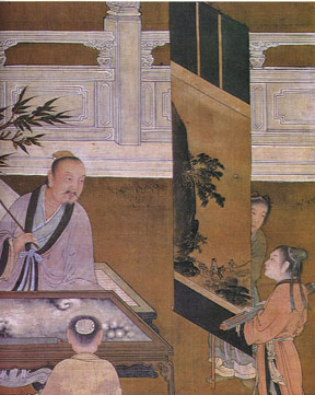 detail: Detail of a painting depicting a painting within.